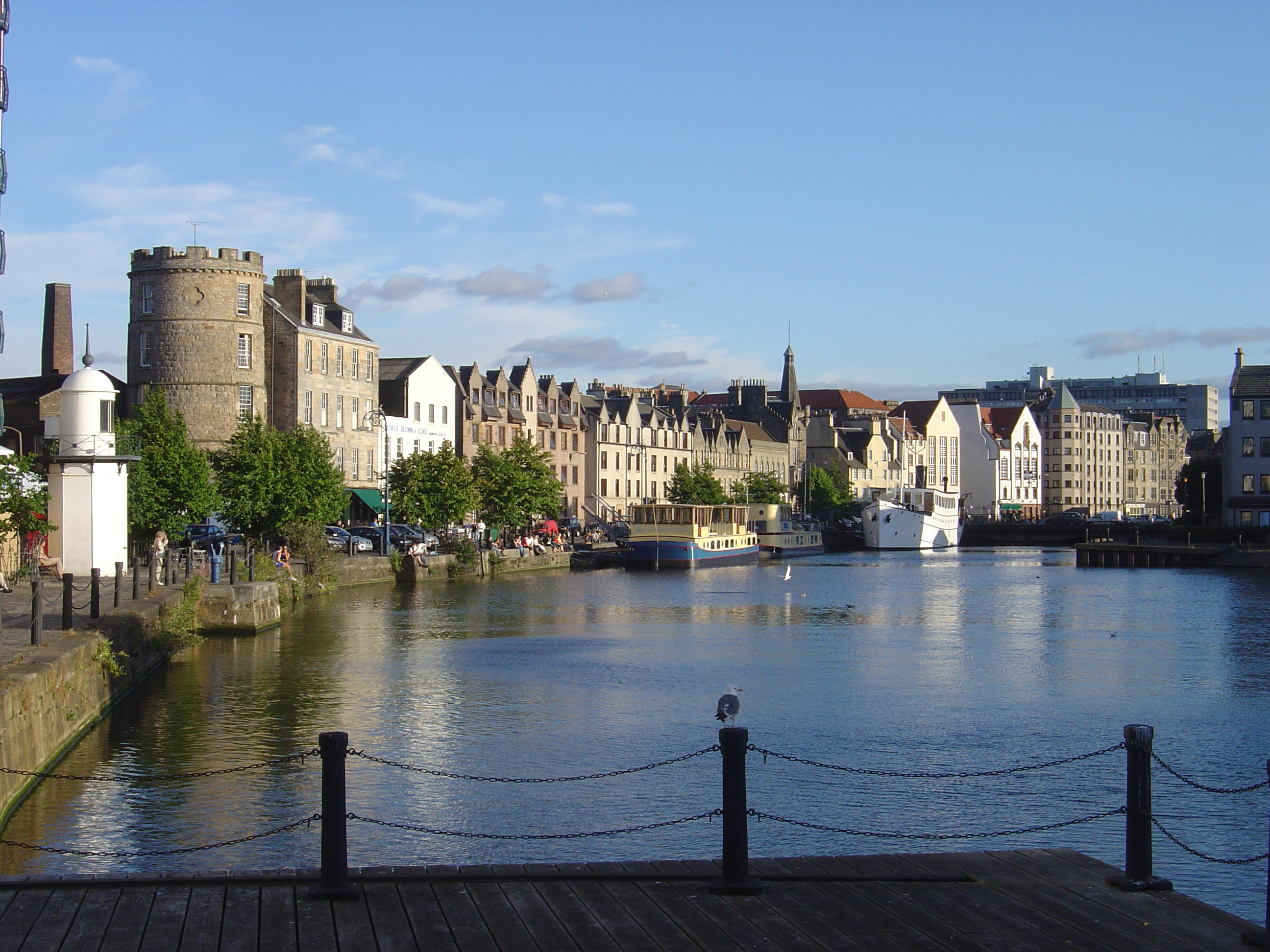 Water of Leith, East Lothian